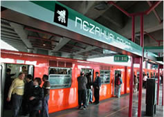 Interior of the Metro Nezahualcoyotl Line B(Cd Aztec-Buenavista)